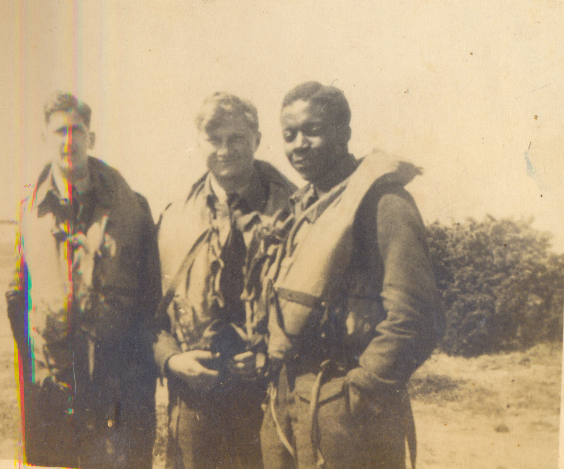 Bankole Vivour On training field at Airforce base